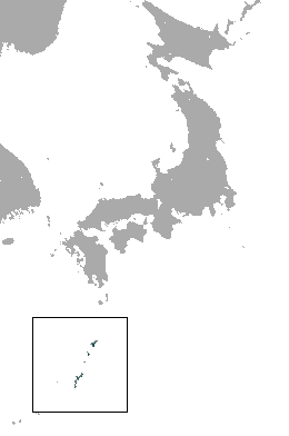 Lesser Ryukyu Shrew (Crocidura watasei) range